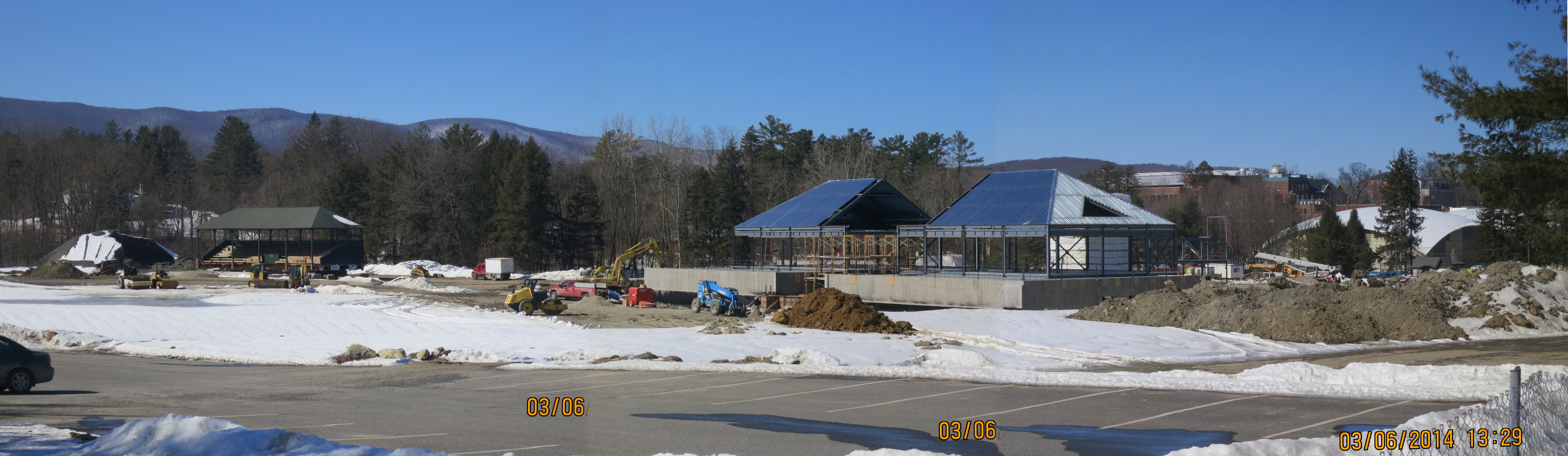 Ongoing construction